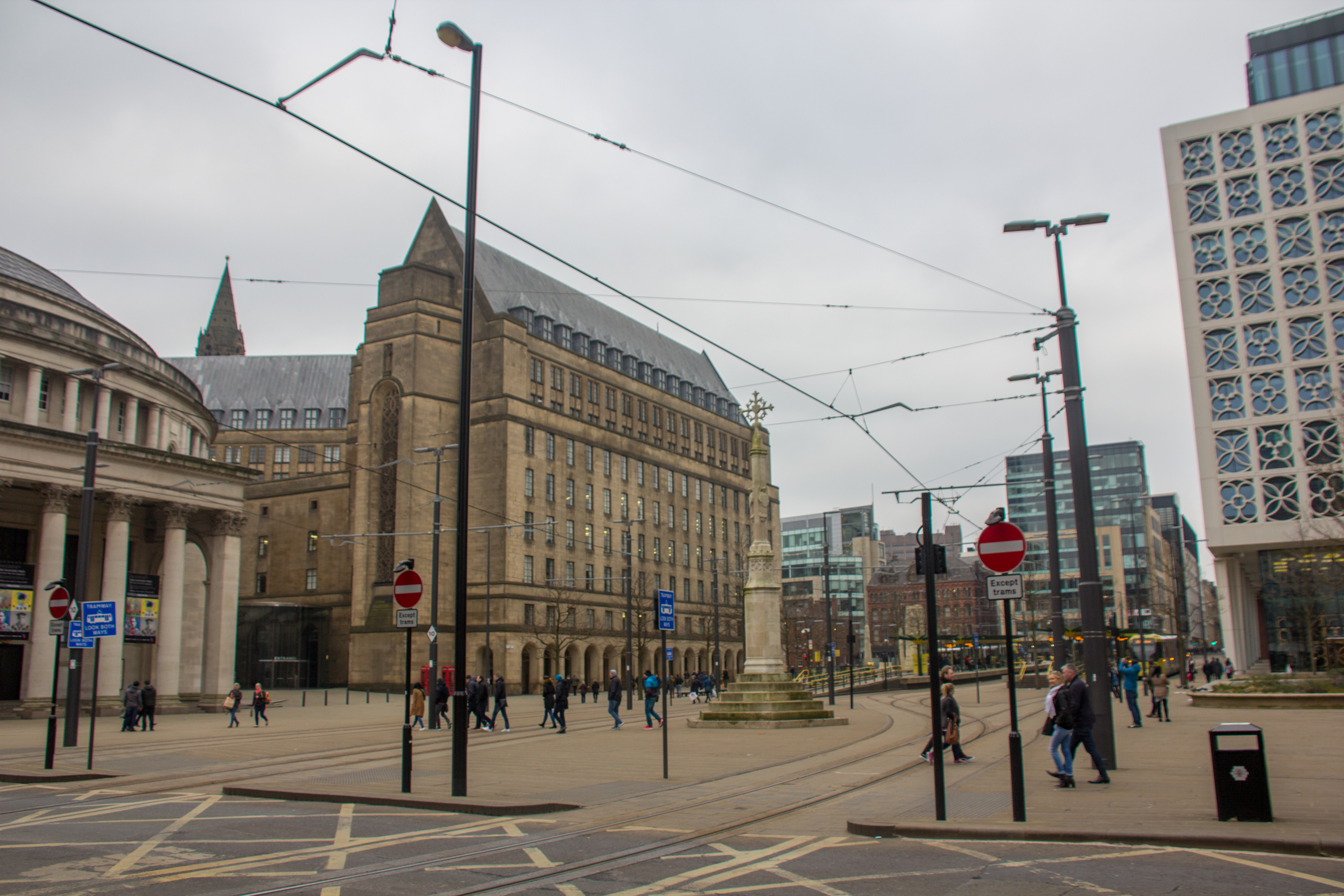 At Manchester, UK